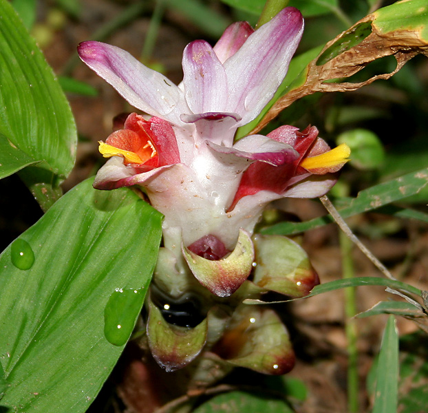 Curcuma inodora in Narsapur, Medak district, Andhra Pradesh, India.